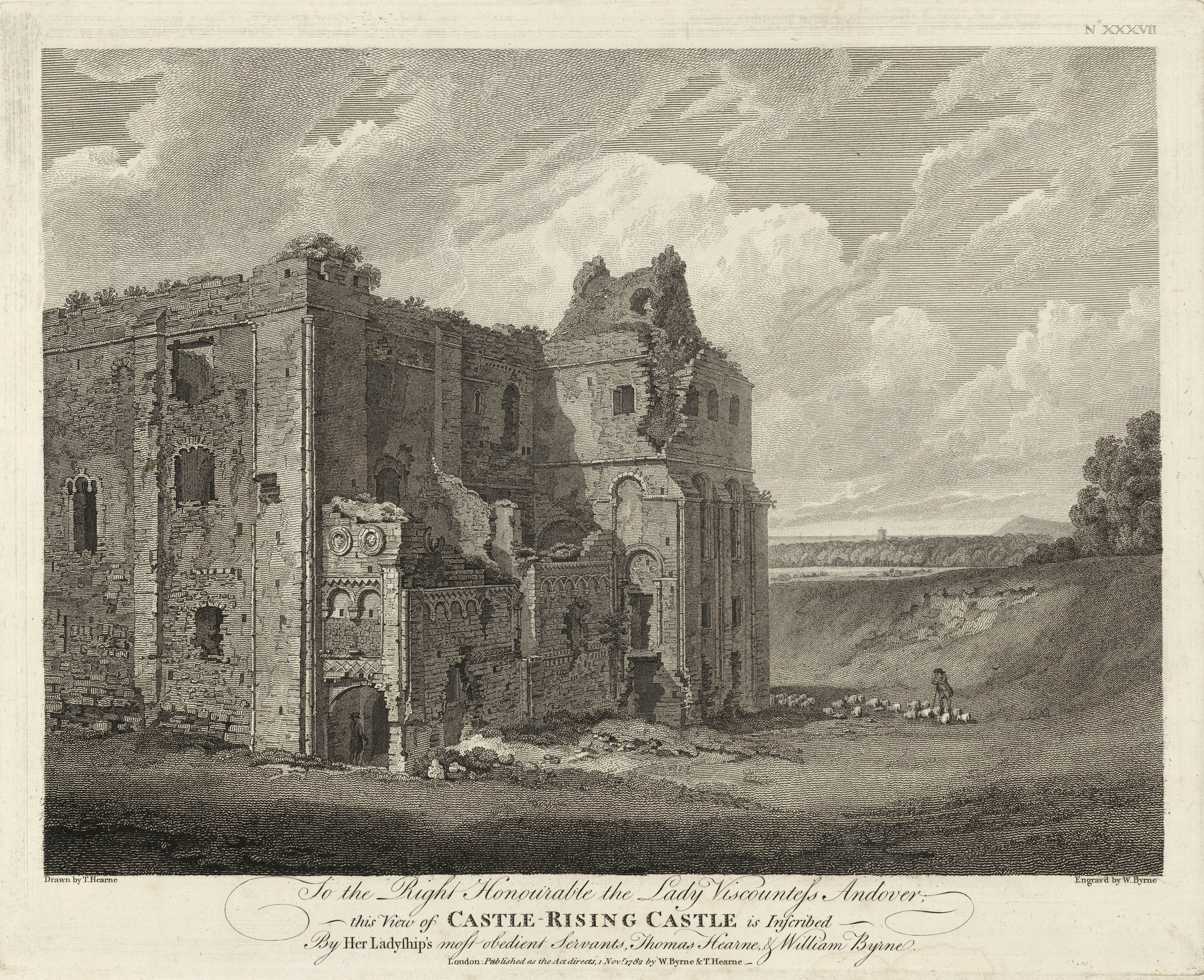 Engraving of Castle Rising, published 1782